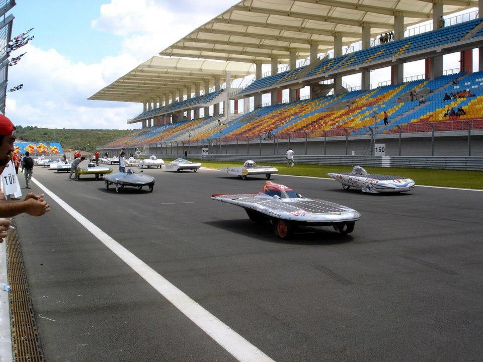 ARIba II